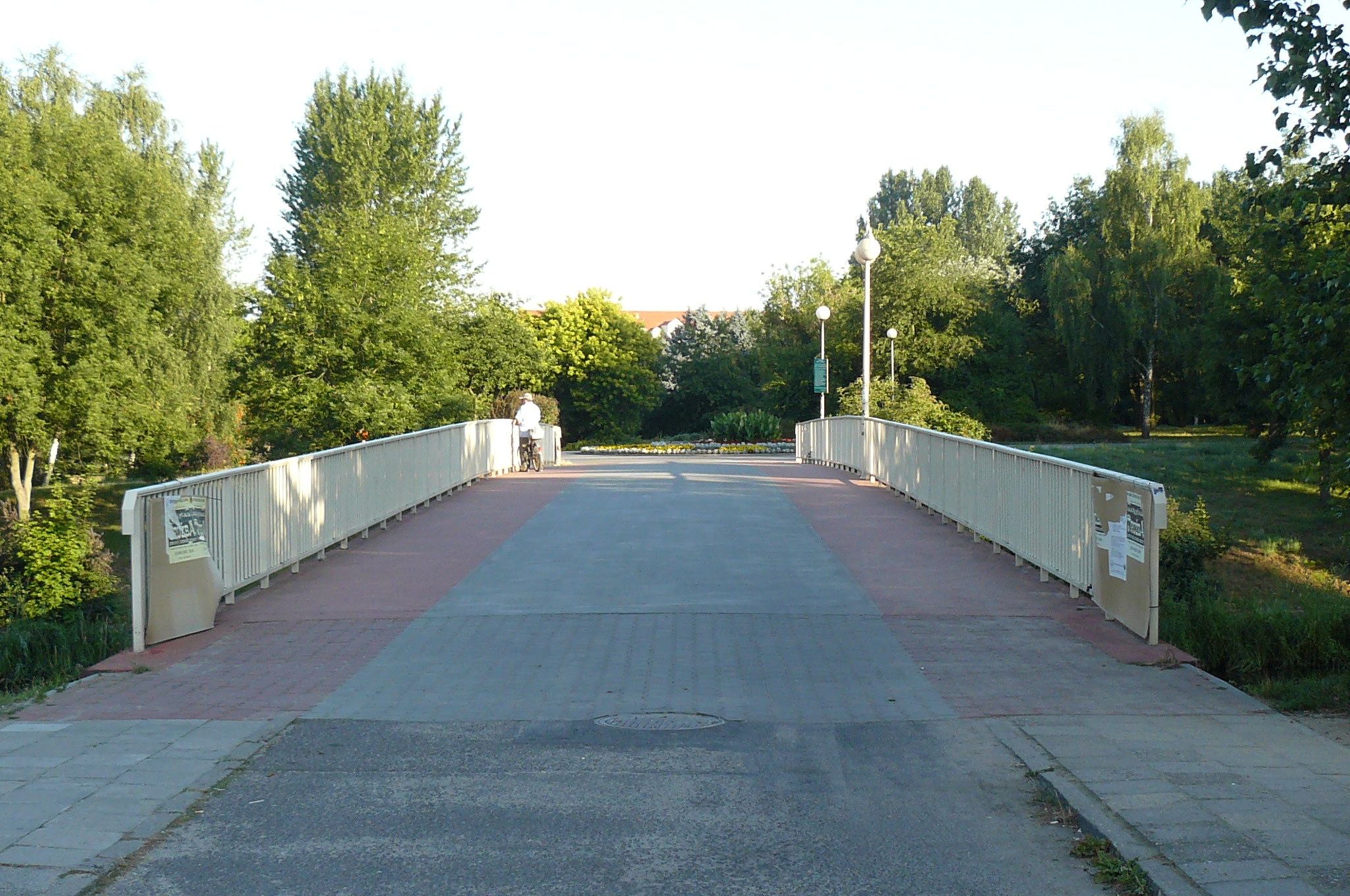 Gardolinka Island in Pila.